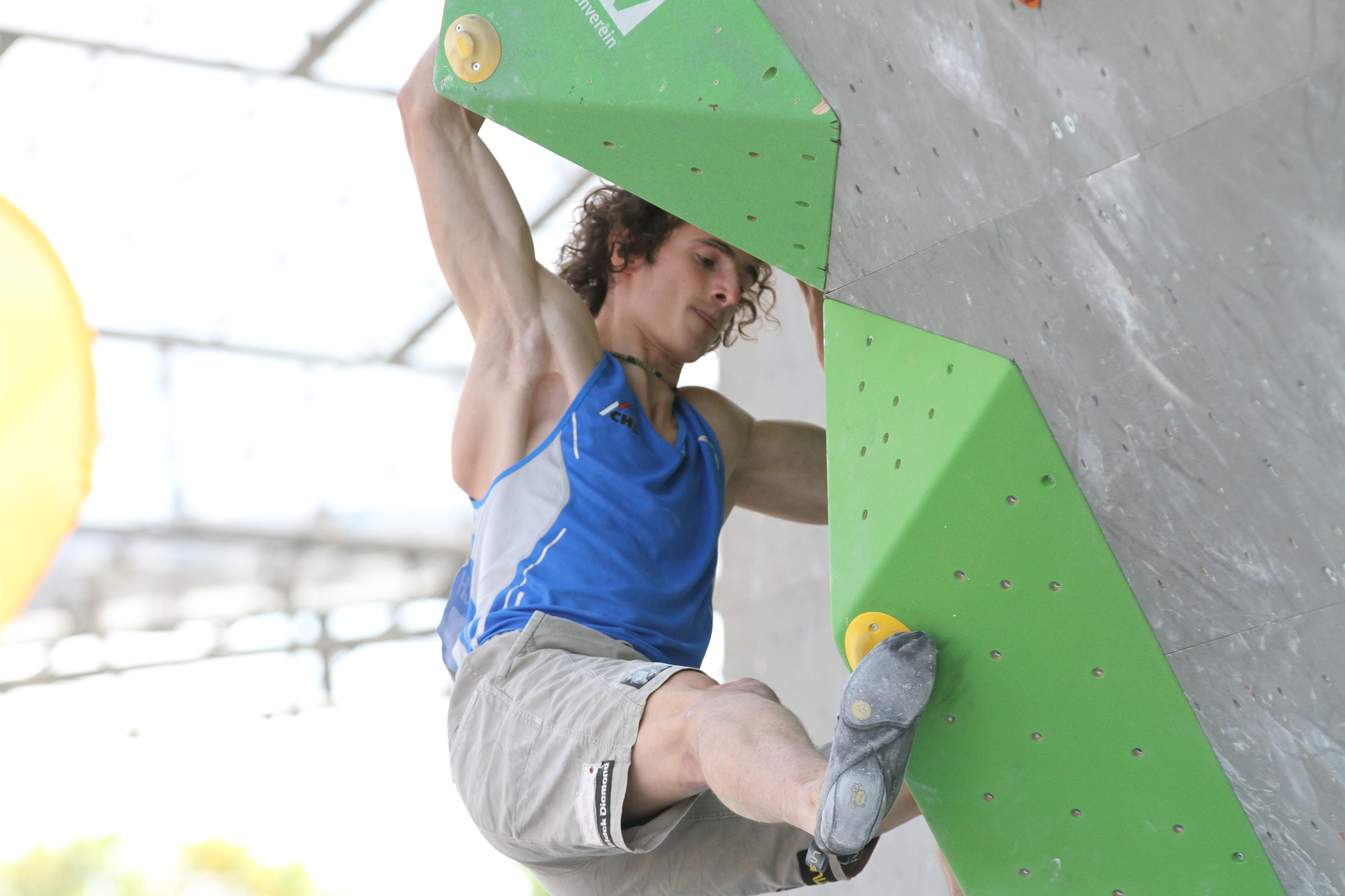 IFSC Boulder Worldcup, Munich 2015. Adam Ondra (CZE)